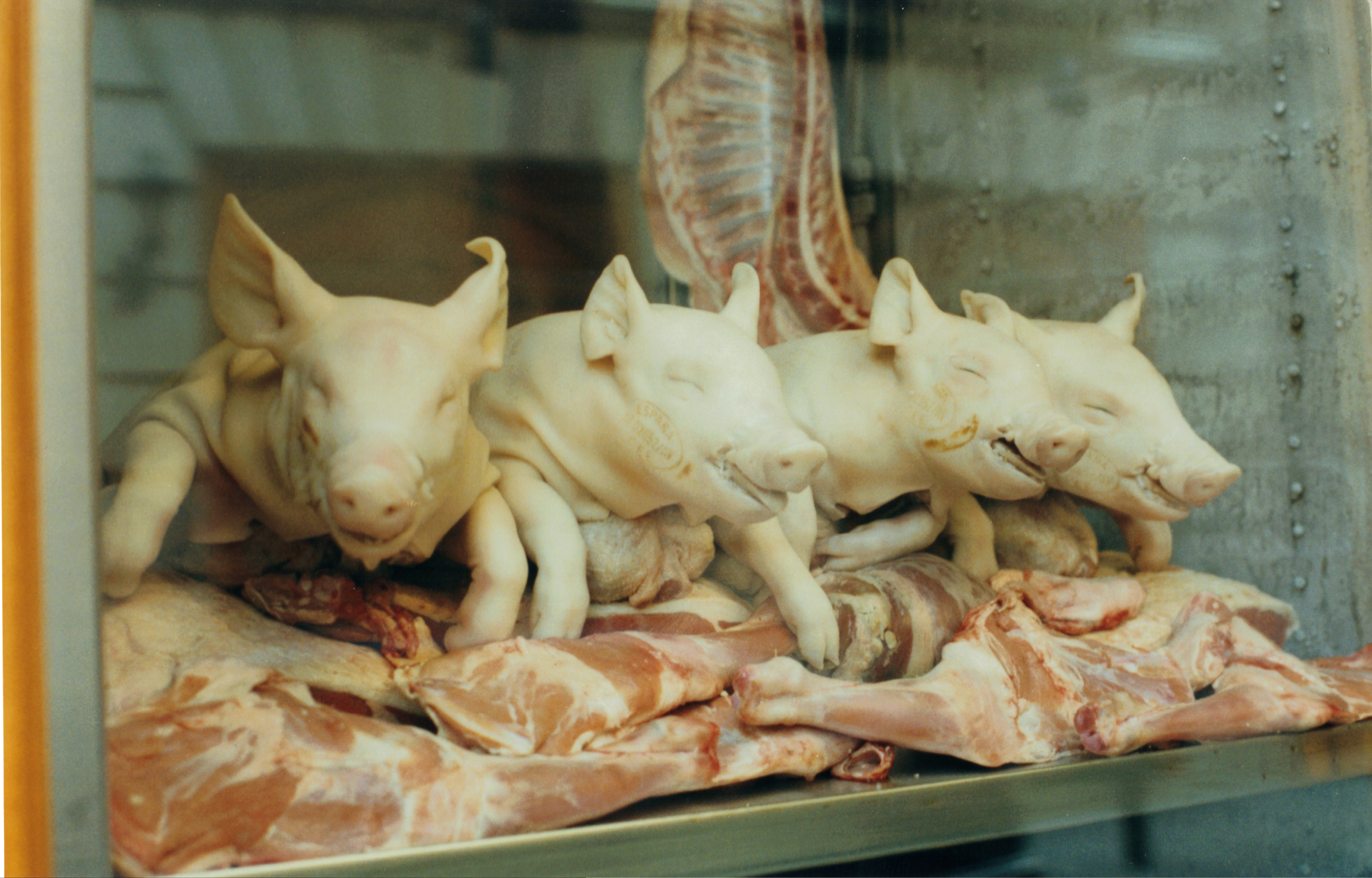 Whole pigs for sale in a butcher's window, Madrid, Spain